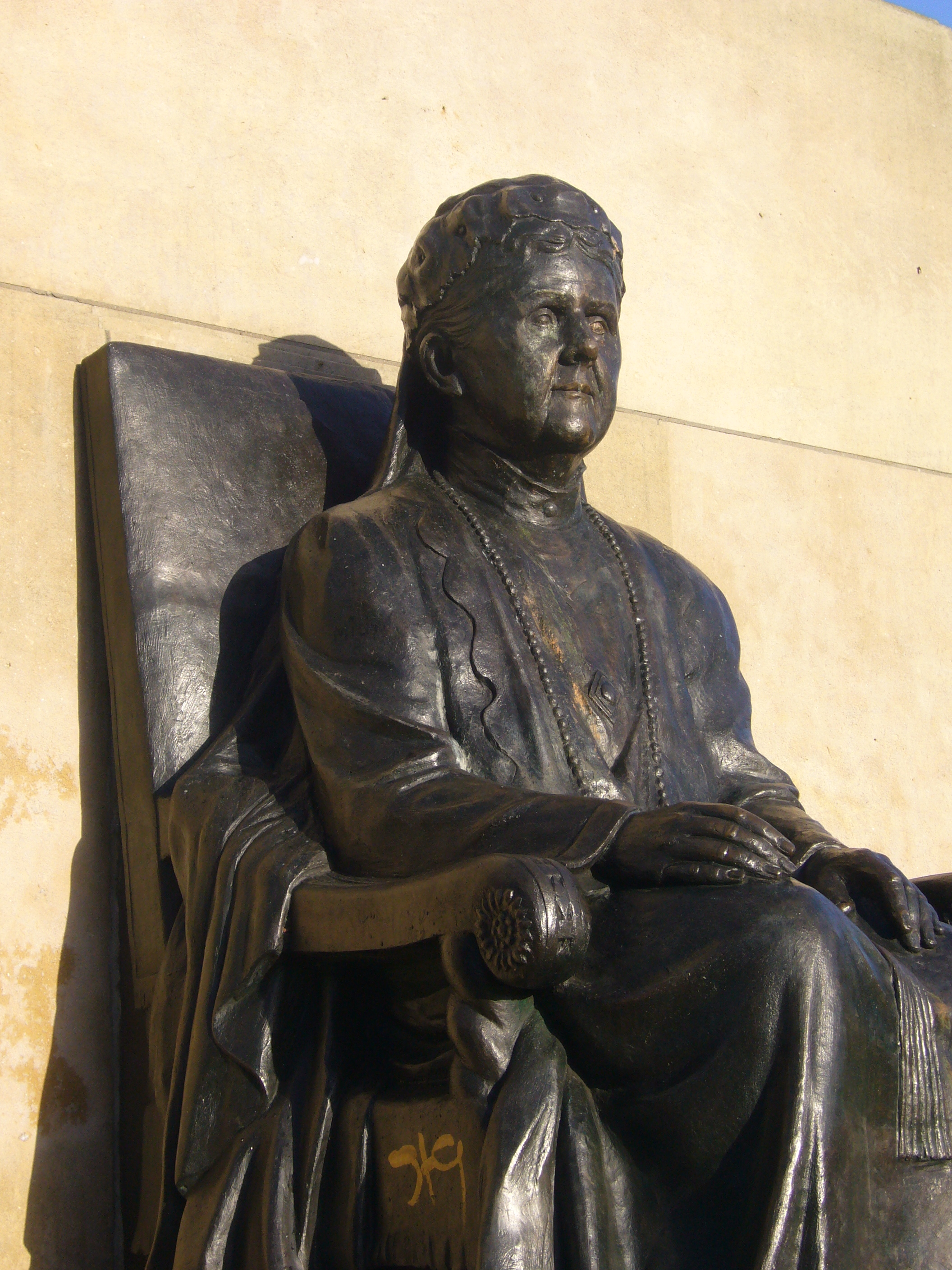 Queen Emma of the Netherlands, {made by Toon Dupuis in 1936), detail